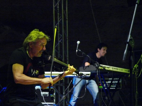 Profusion - Città Aromatica